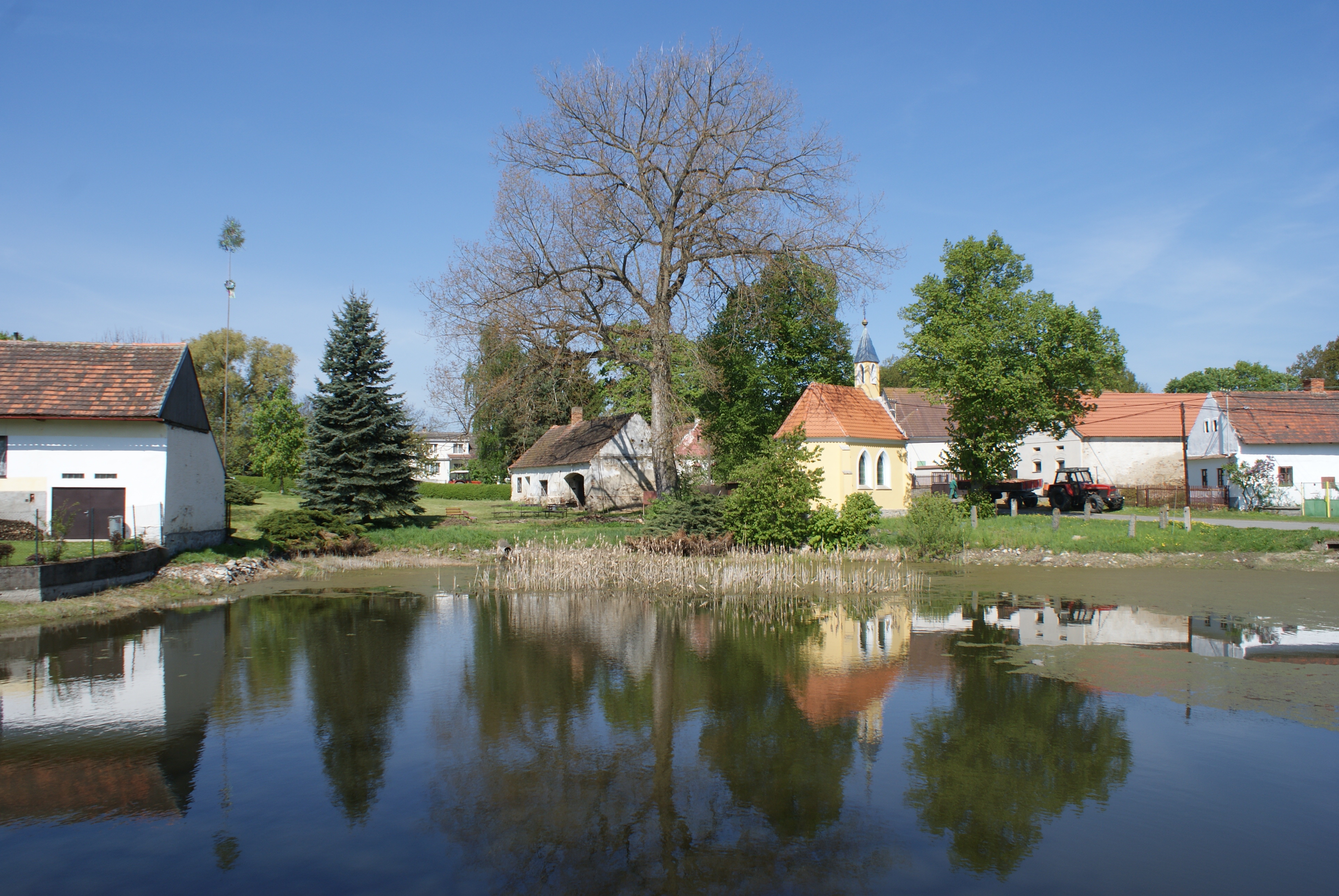 Rukáveč, part of Milevsko, a village in Písek District, Czech Republic, the village common.